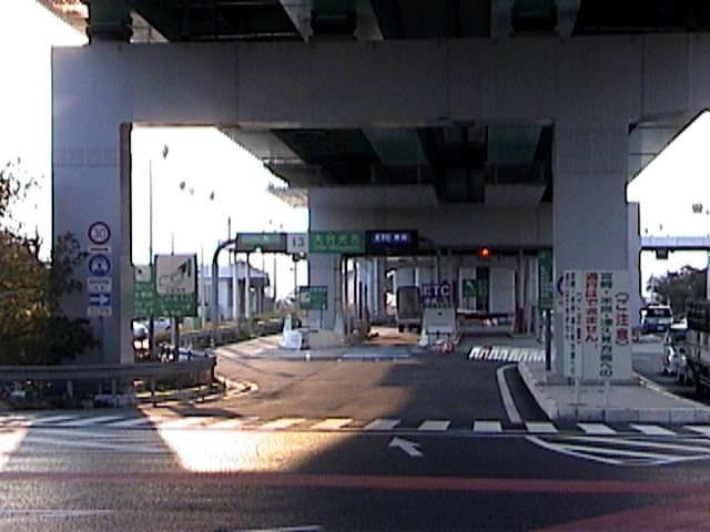 Photograph at Route-Oita Oita-Mituyoshi Interchange in expressway in Oita City, Oita Prefecture, Japan